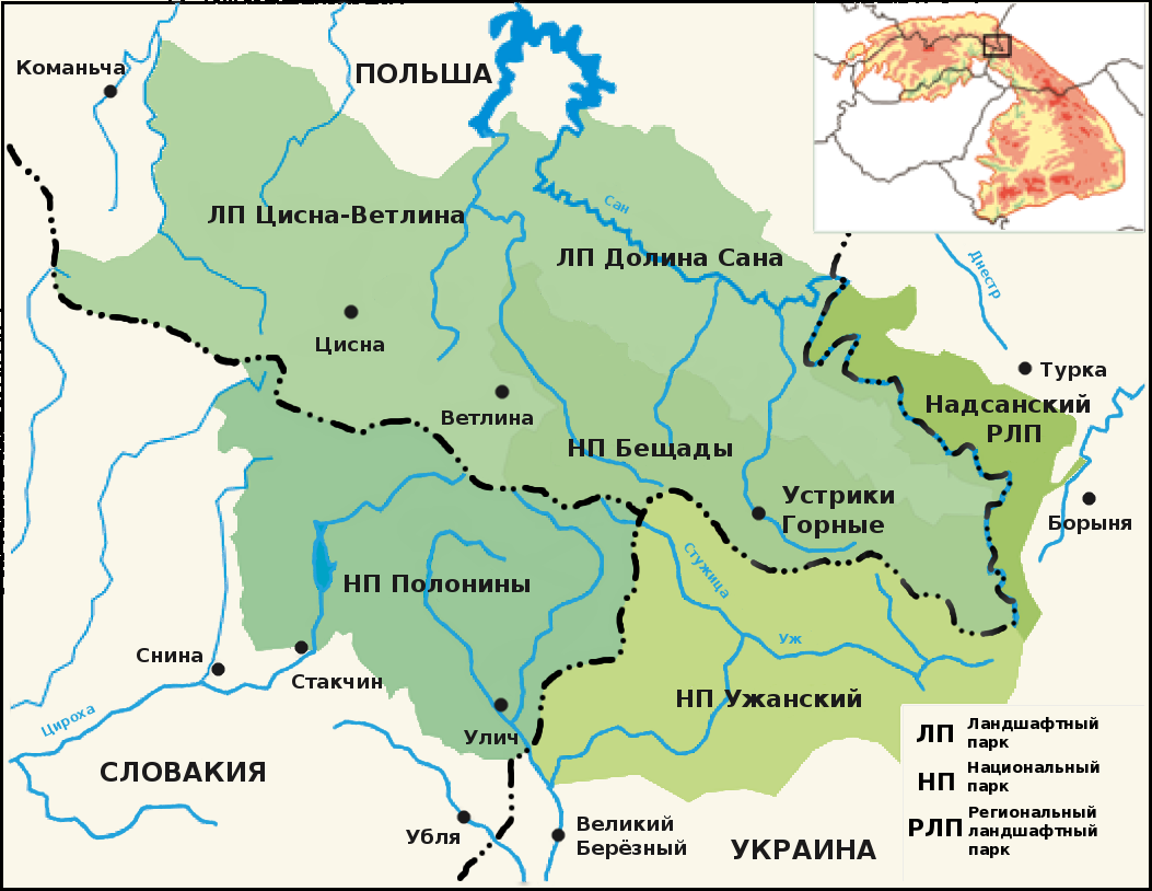 Map of the East Carpathian Biosphere Reserve. International (3-side, ru)